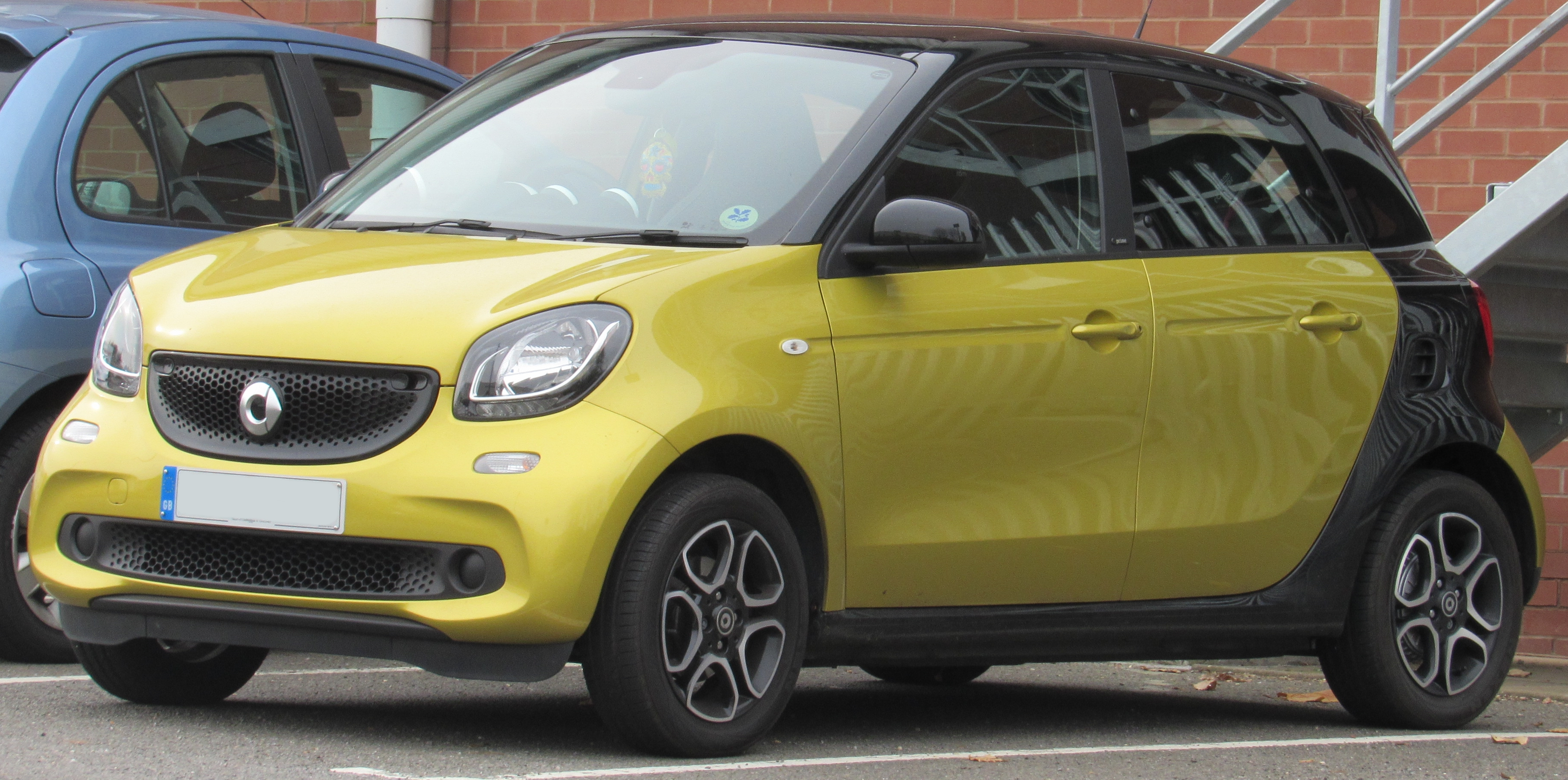 2015 Smart Forfour Prime Premium T 900cc Taken in Leamington Spa